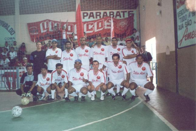 Vilense, Champion of the 2nd Friendship Tournament of the São Cristóvão Neighborhood 2003